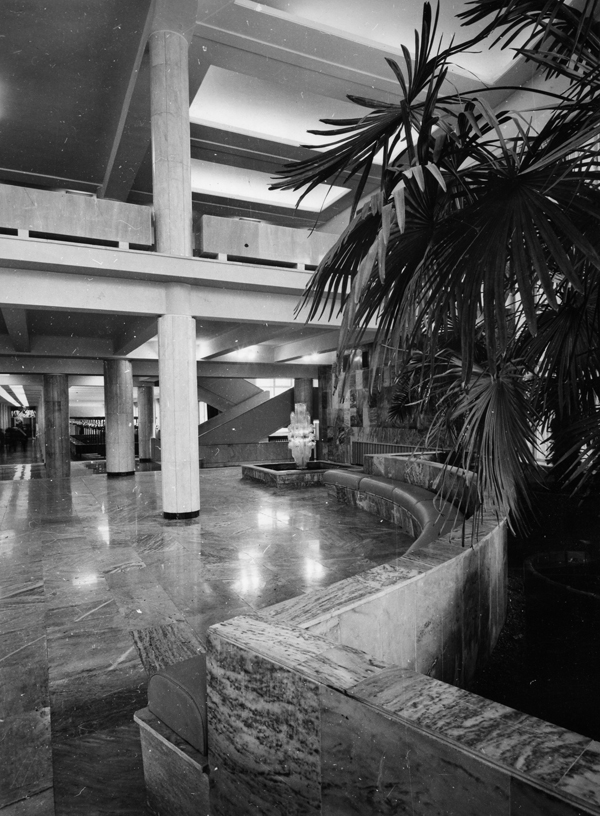 Winter garden of DK ZIL after restoration